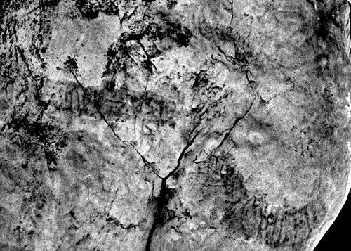 Close-up view of runic carving on Piraeus Lion.